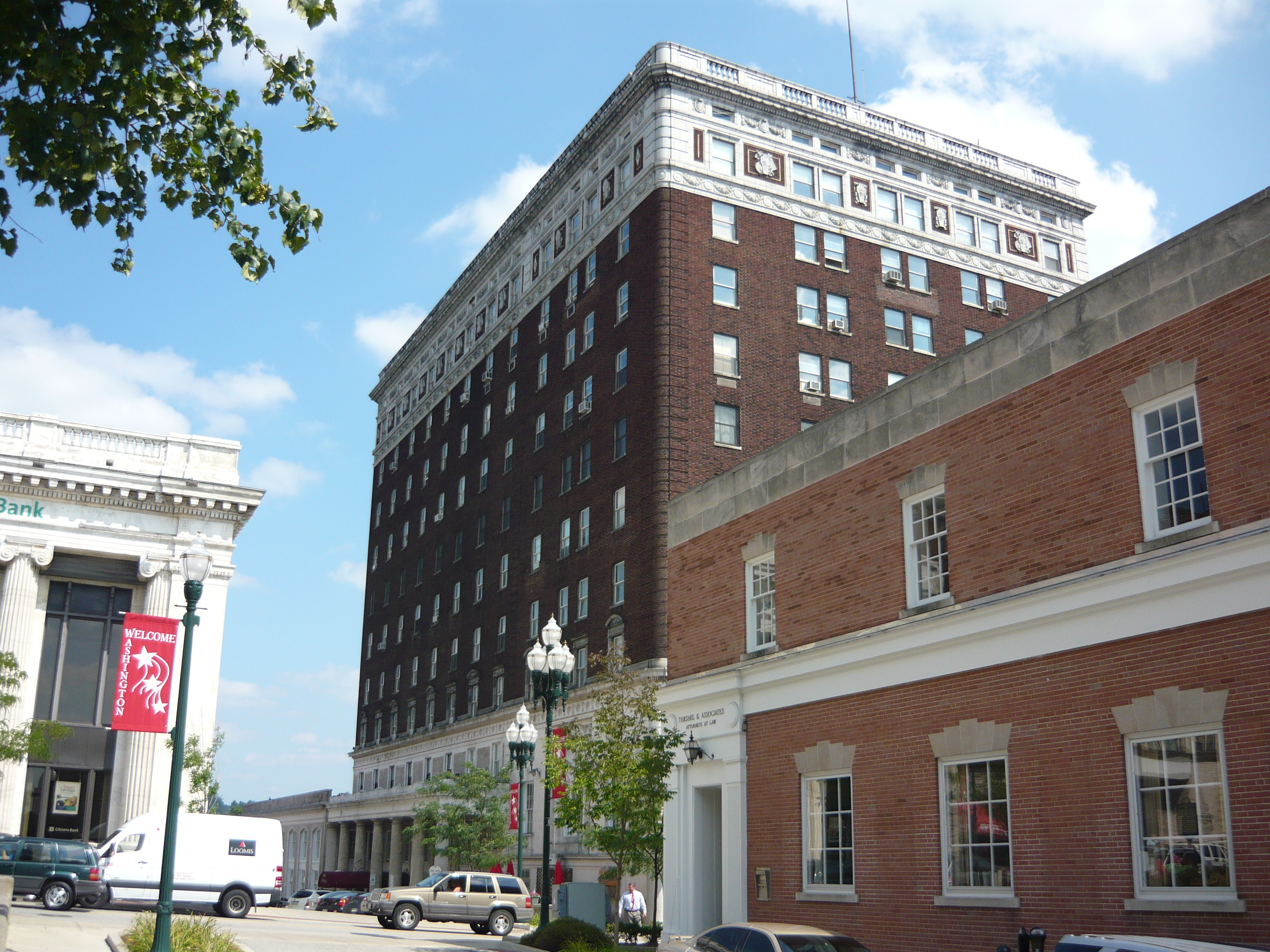 George Washington Hotel, 60 South Main Street (corner of East Cherry Avenue), (City of) Washington, Pennsylvania. Built: 1923. Architect: William Lee Stoddart.